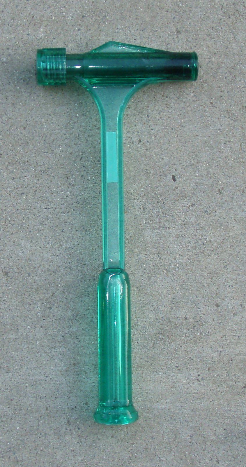 Impact Bullet Puller for handloading ammunition